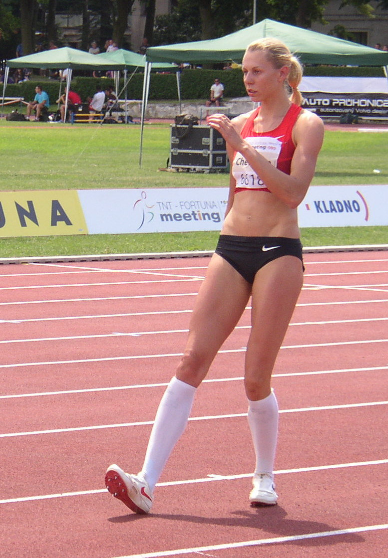 Athlete Tatyana Chernova of Russia preparing for her attempt in long jump during women's heptathlon at 5th edition of the TNT - Fortuna Meeting (IAAF World Combined Events Challenge Meeting, Sletiště Stadium, Kladno, Czech Republic, 16 June 2011, 12:06).